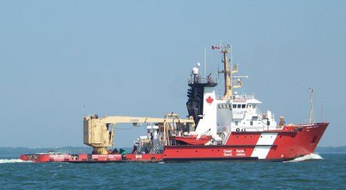 The Canadaian Coast Guard Ship Samuel Risley on Lake Erie in June 2008. IMO: 8322442 MMSI Number: 316001890 Callsign: CG2960 Length: 70 m Beam: 14 m